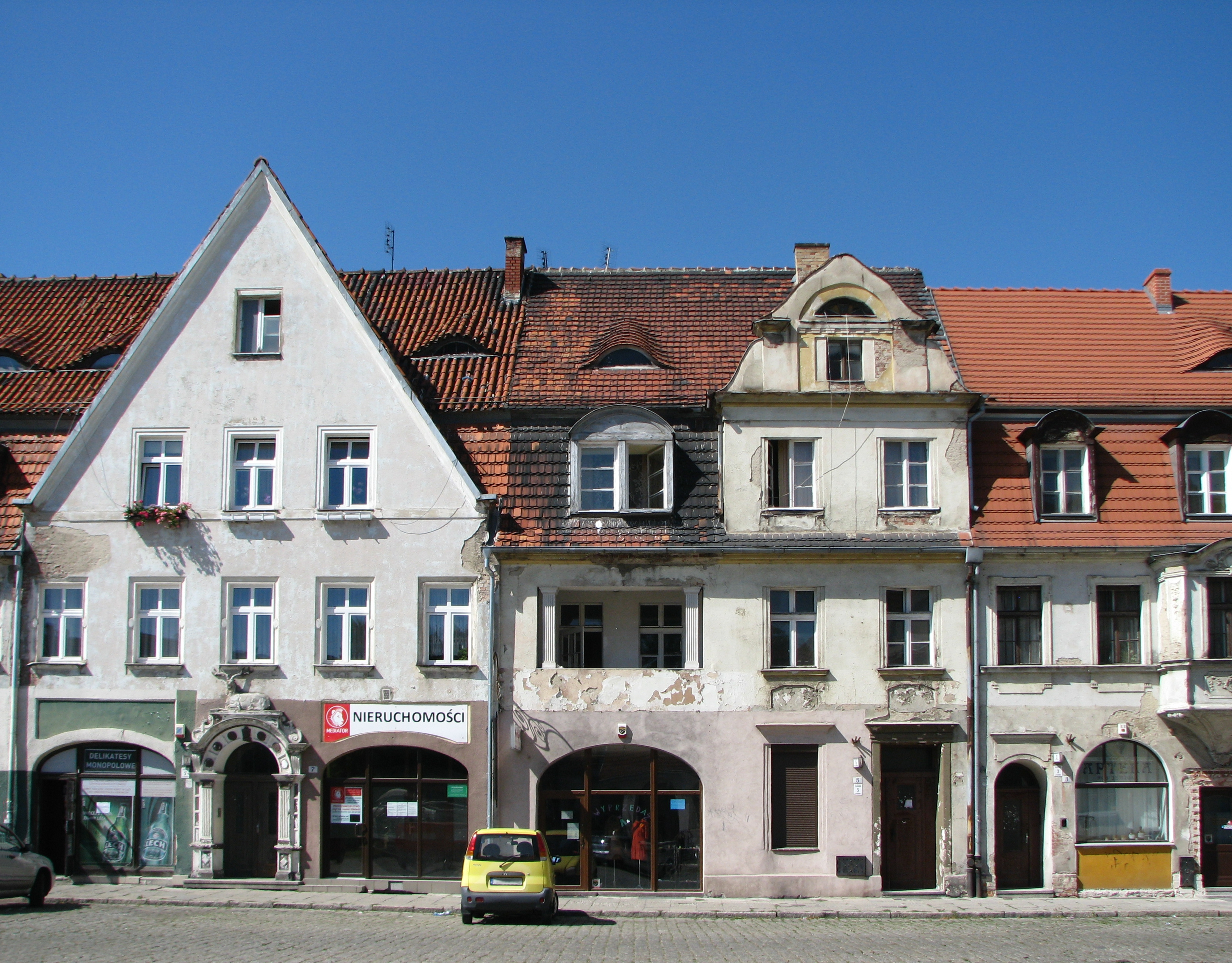 House at 5 Piłsudskiego Square, Wrocław, Poland. Cultural heritage monument.